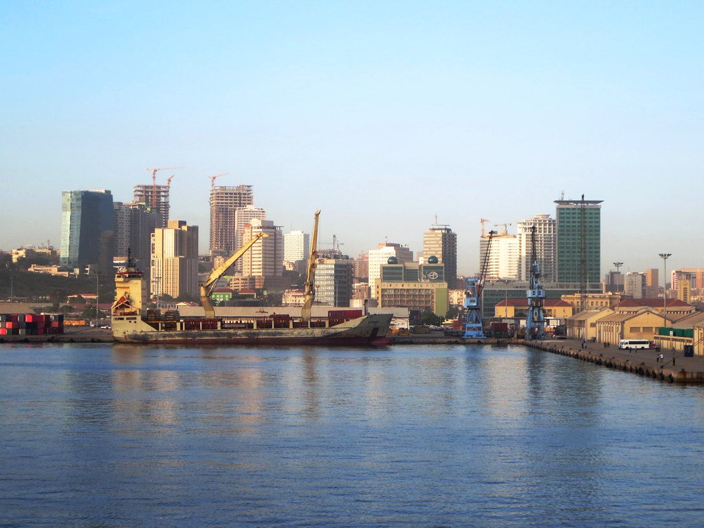 The Porto de Luanda is Angola's largest, serving a growing city of over five million.